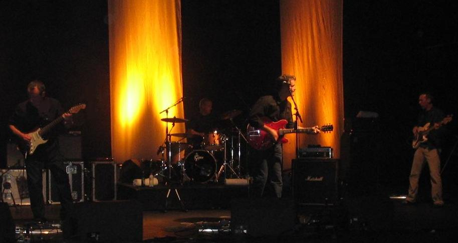 Picture I made myself in oct 2004, London, during a concert of Lloyd Cole and the Commotions